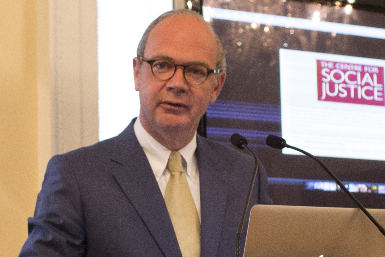 The gala opening of the 3-day The International 2015 Carl Bernhard Wadstrom Conference on Human Rights and the Abolition of Slavery was hosted by the Anglo-Swedish Society at the Mansion House. Alexander Malmaeus acted as moderator, Lord Mayor Locum Tenens Alderman Sir Roger Gifford spoke about slavery and the the City of London and Swedish Ambassador H E Nicola Clase about modern-day human rights. Keynote Speakers Professor Neil Kent gave a compelling history of the slave trade and its supposed abolition, and Mark Florman a description of the passing of the Modern Slavery Act 2015. Photography by Antonios Marinis